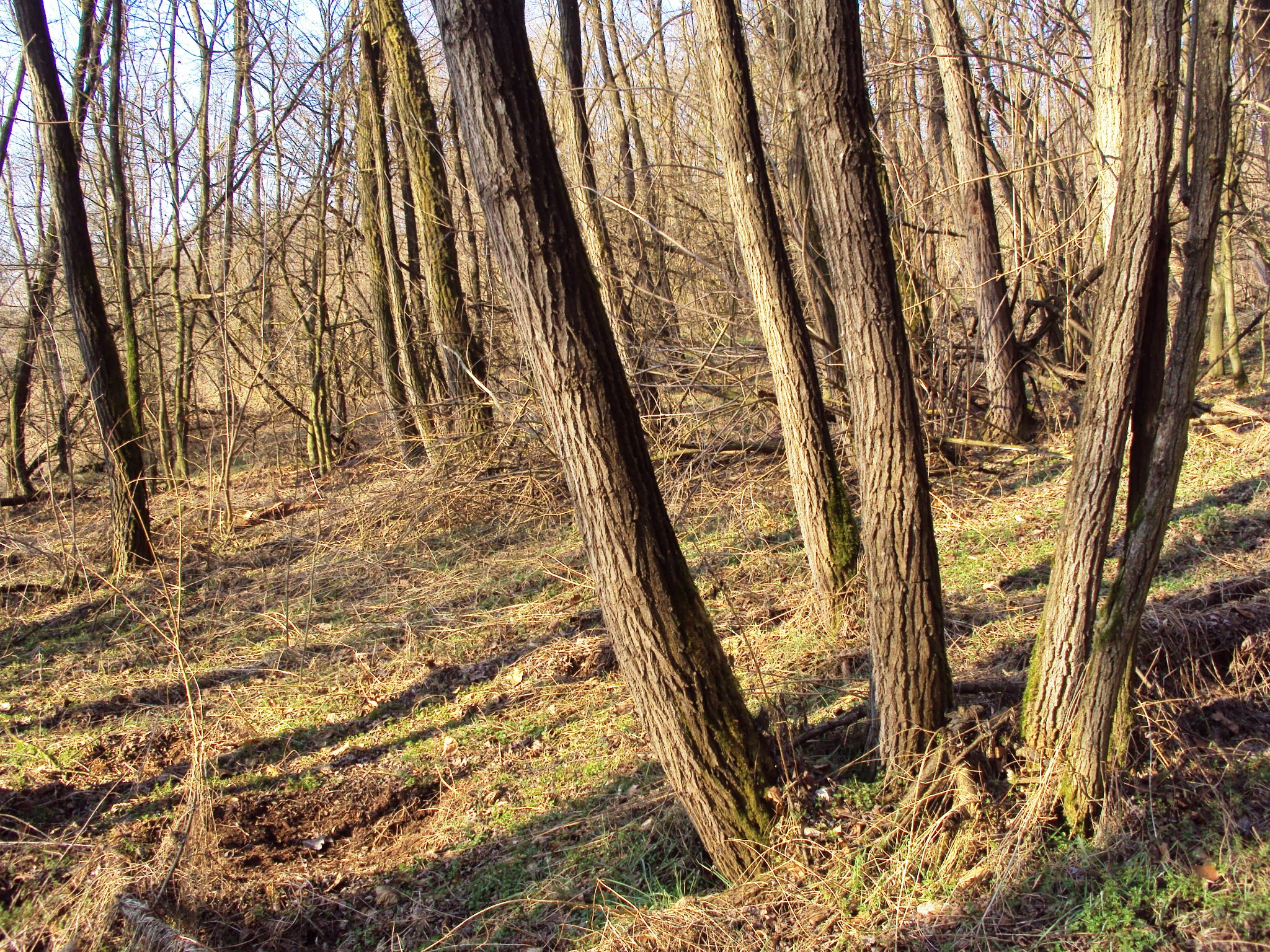 Robinia pseudoacacia, Sveti Petar Čvrstec, Croatia